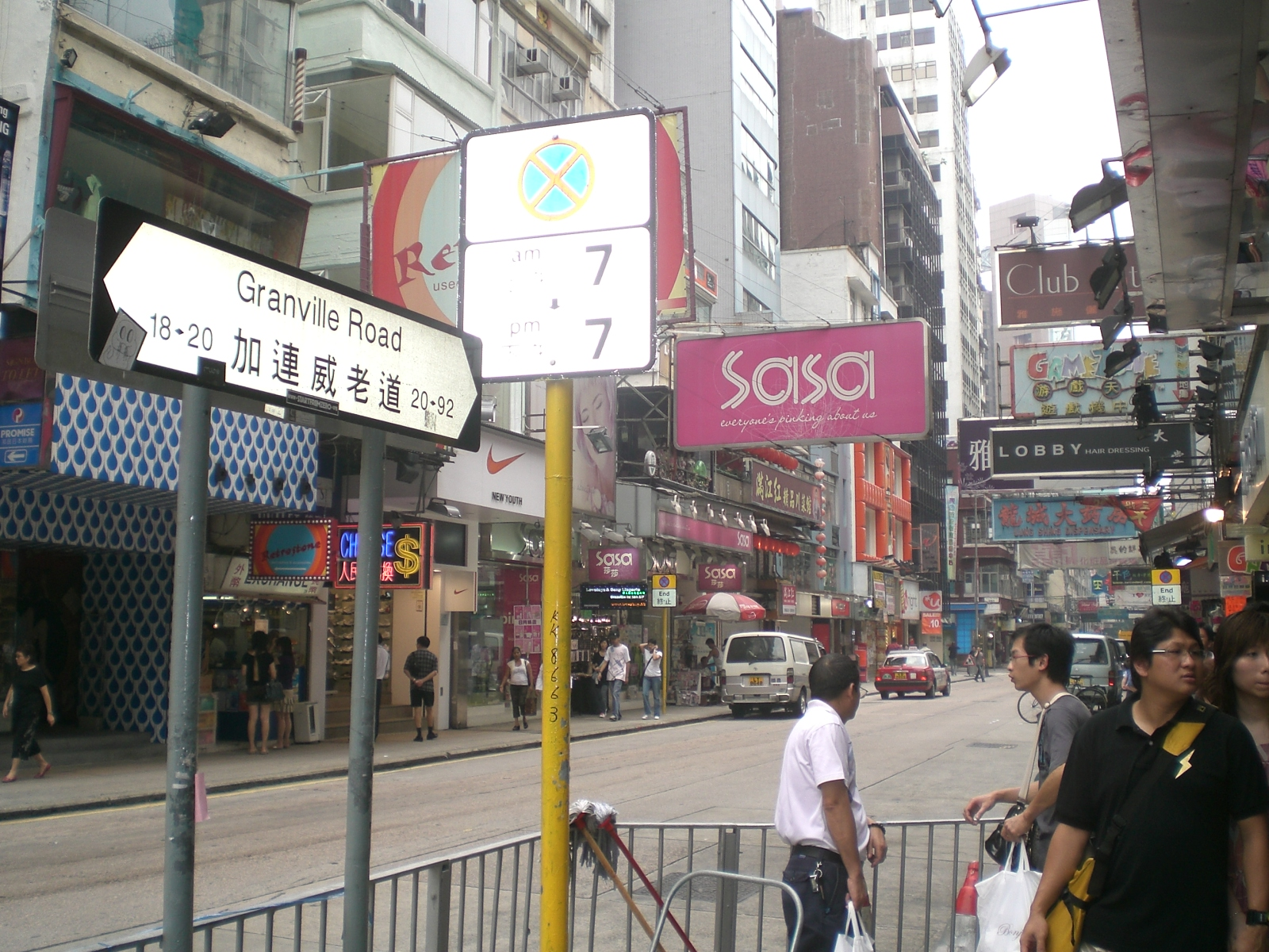 莎莎國際 @ 尖沙咀加連威老道